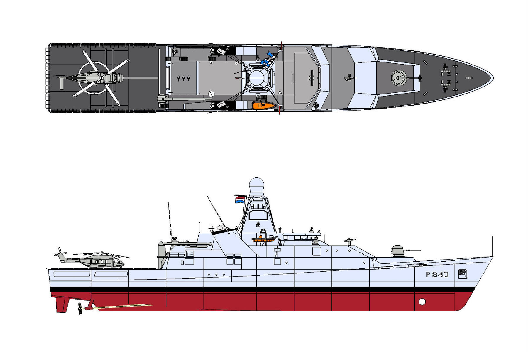 Layout of the Holland-class offshore patrol vessels.